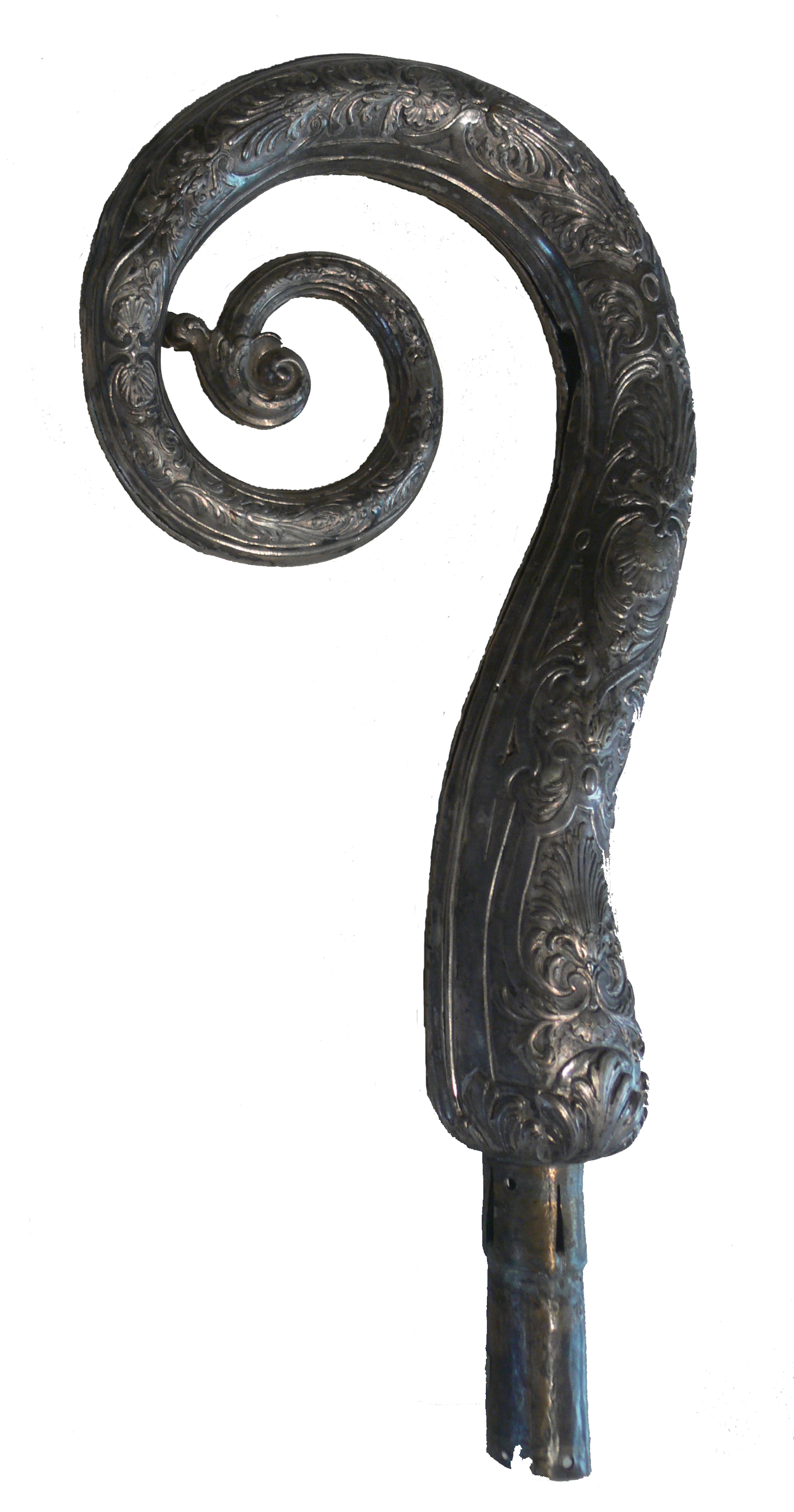 Crozier of the bishop of Vesoul Jean-Baptiste Flavigny (end of 18th c.). Silver. Deposi of parish Saint-Georges to musée Georges-Garret of Vesoul, inv. D 989.1.1